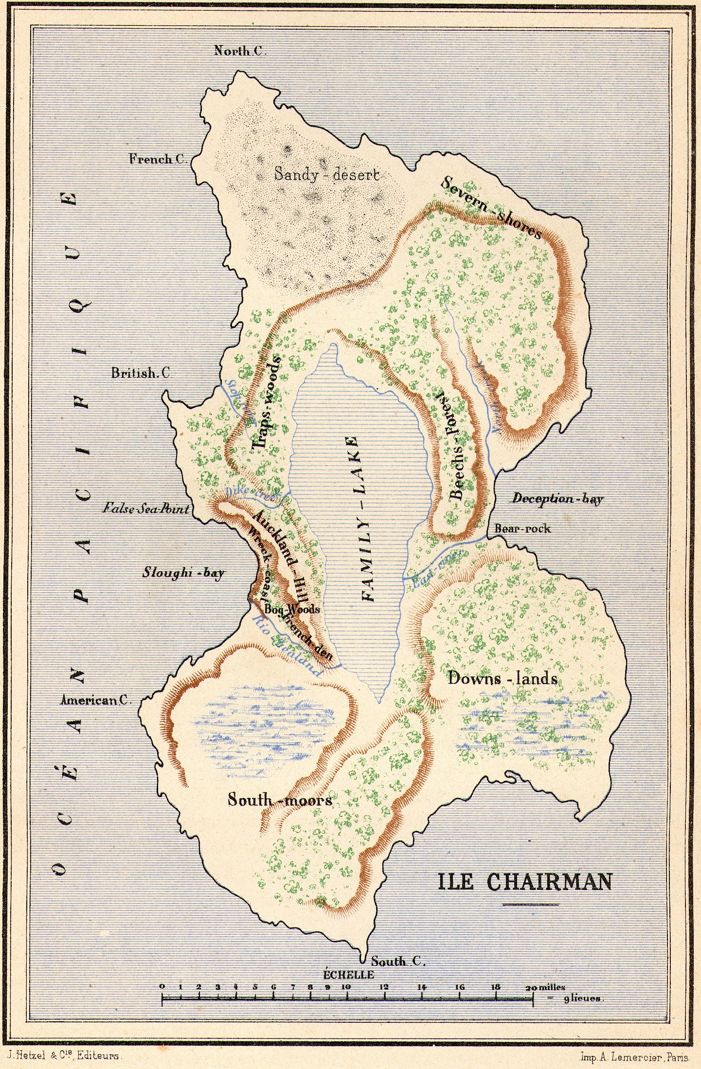 Map of the island Ile Chairman from Jules Verne's novel Two Years' Vacation, 1886-87, illustration by Hippolyte Léon Benett